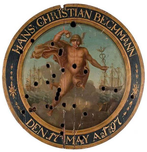 A decorated target of the kind new members of the Roydal Copenhagen Shooting Society had to have made